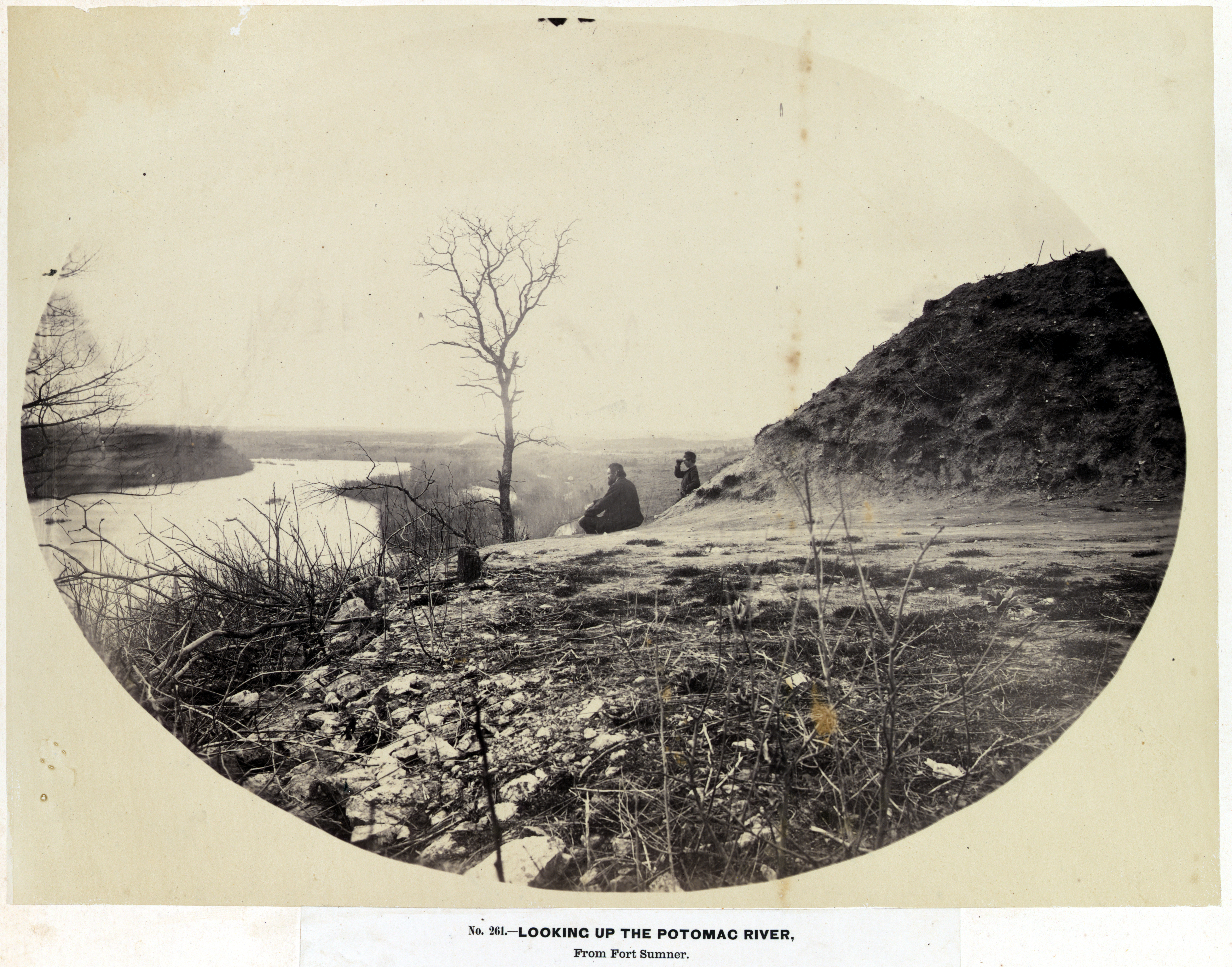 View of Potomac River from Fort Sumner, Maryland, just northwest of Washington, D.C. The Union Army built Fort Sumner to protect the Washington Aqueduct.